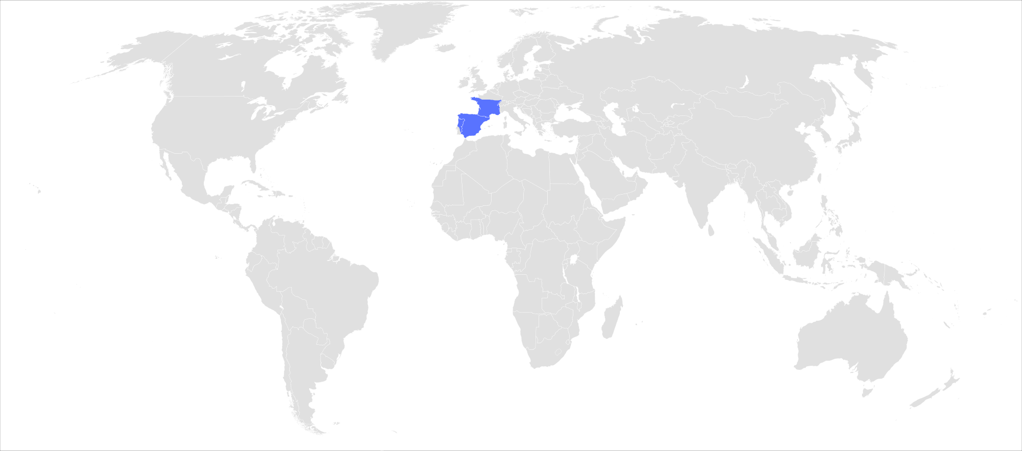 Approximate distribution of Melitaea parthenoides. Based on Tolman's guide map (2011)